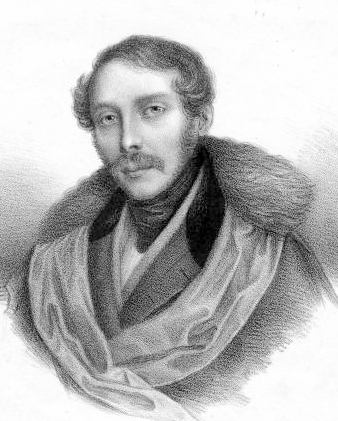 Italian composer Alessandro Nini (1805-1880).